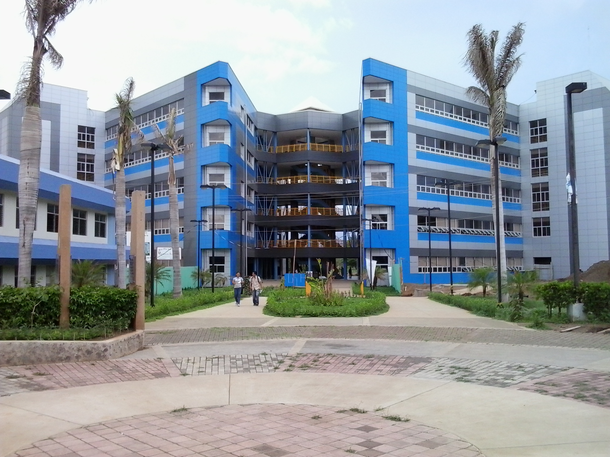 New building of the Universidad Nacional de Ingenieria, Managua, 2013